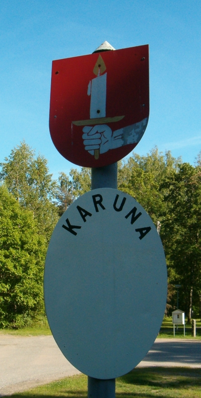 A sign in the yard of Karuna church, Sauvo, Finland